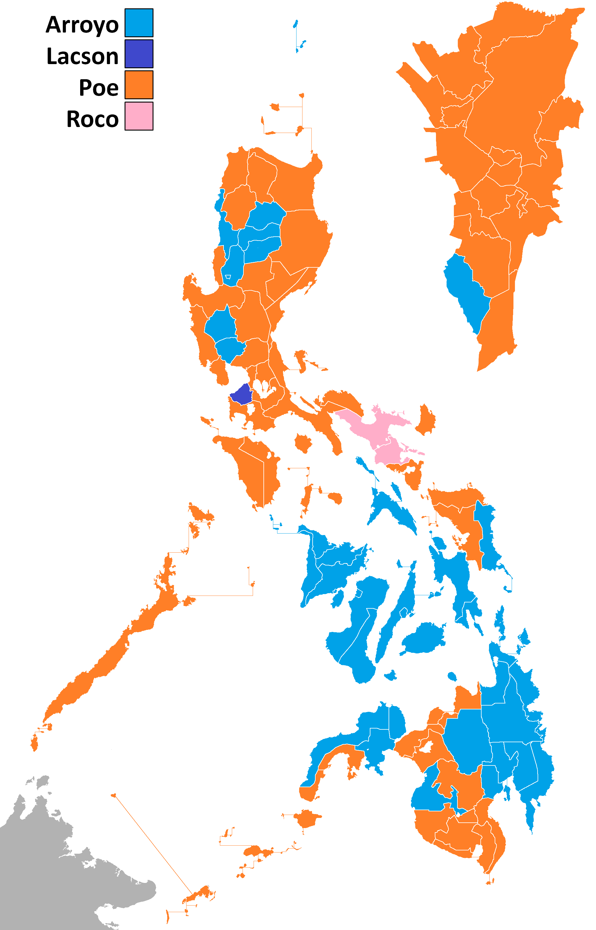 Here's the province according to NAMFREL won by Orange: Poe, Sky Blue: Arroyo, Blue: Lacson, Pink: Roco.